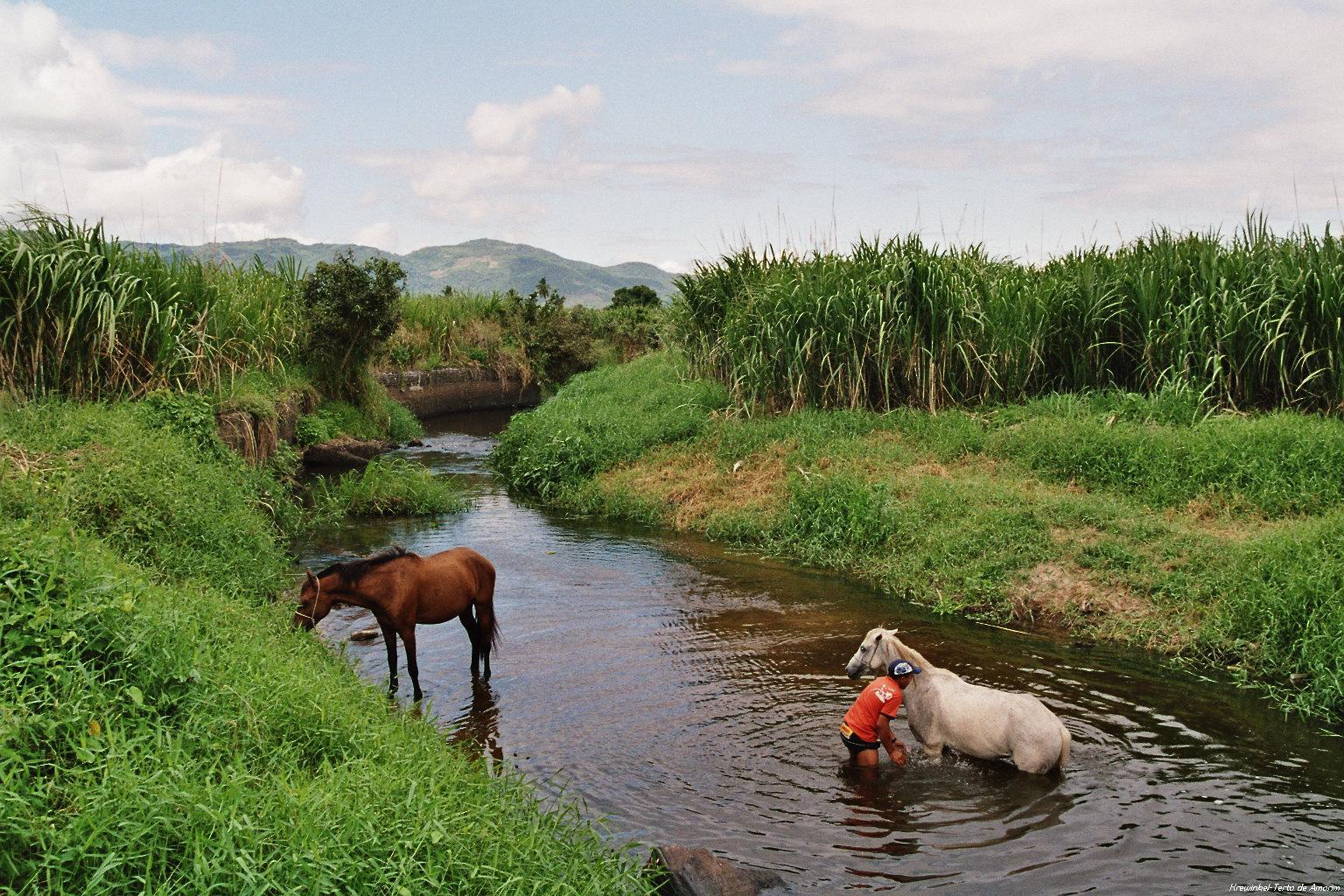 River Pacoti/Acarape